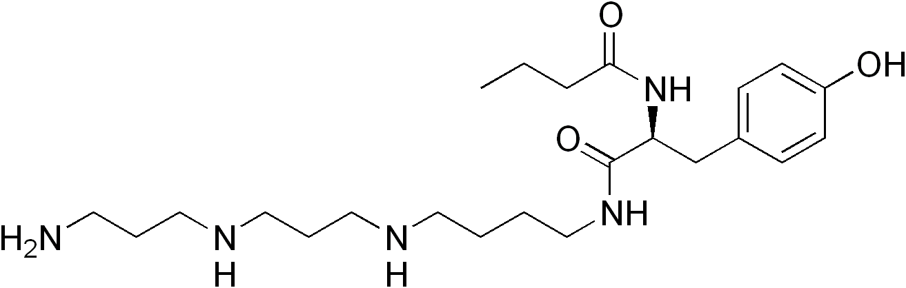 Chemical structure of philanthotoxin